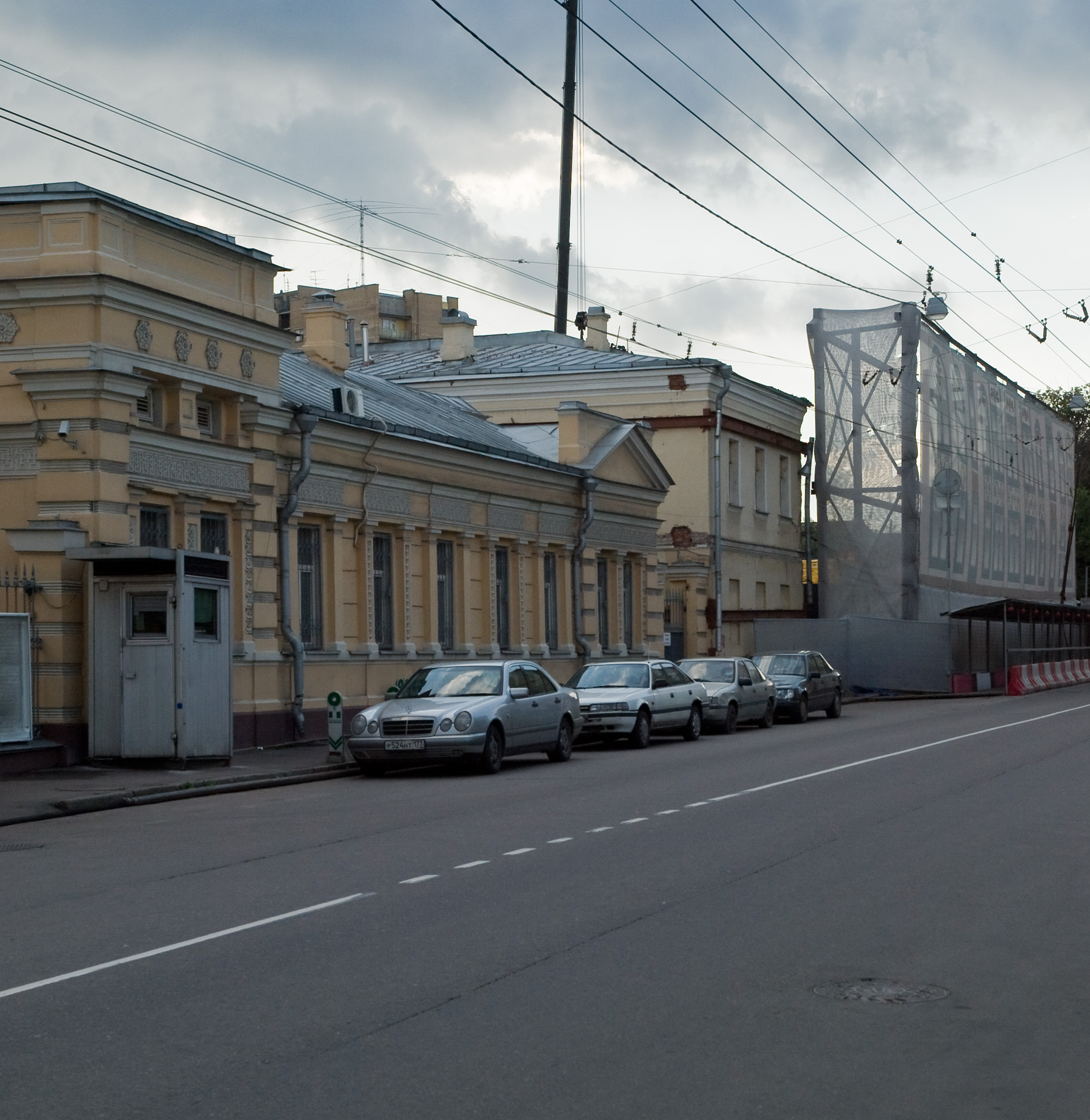 Former Embassy of Nigeria in Moscow